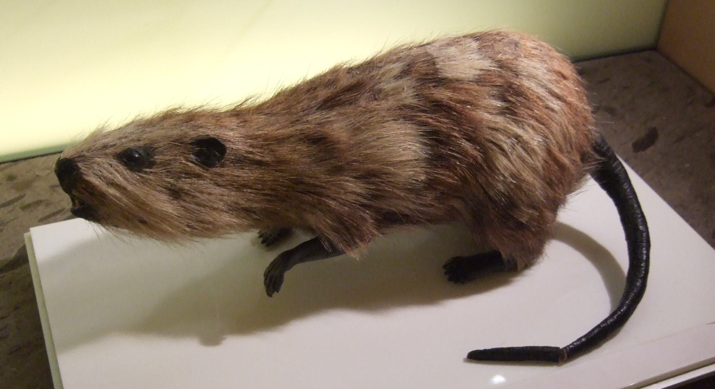 Model of Canariomys bravoi at the Museo de la Naturaleza y el Hombre, Santa Cruz, Tenerife.